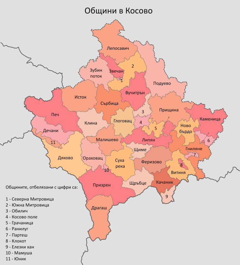 Map of Municipalities of Kosovo 2011 in Bulgarian